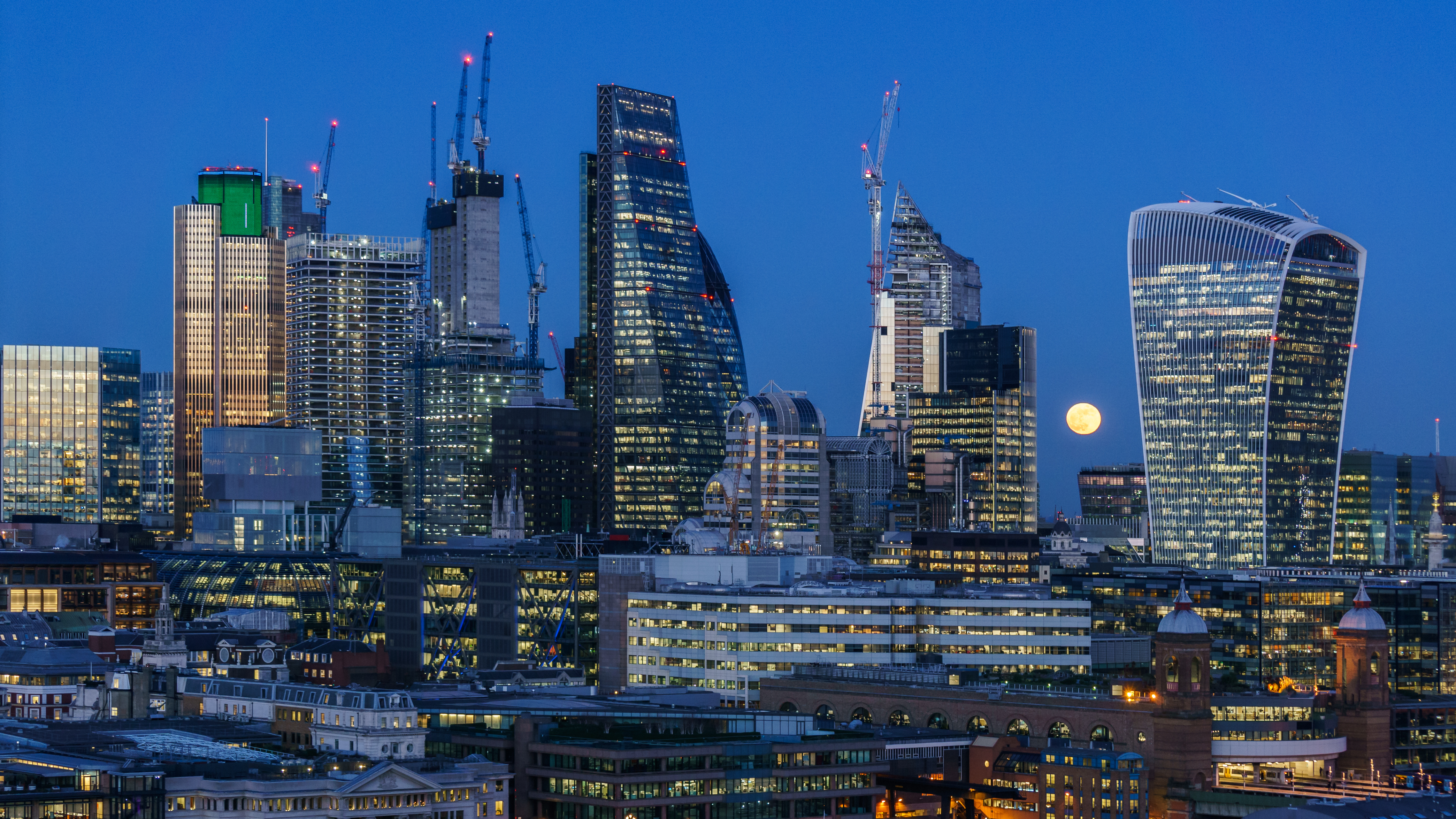 Supermoon over the City of London viewed from Tate Modern.